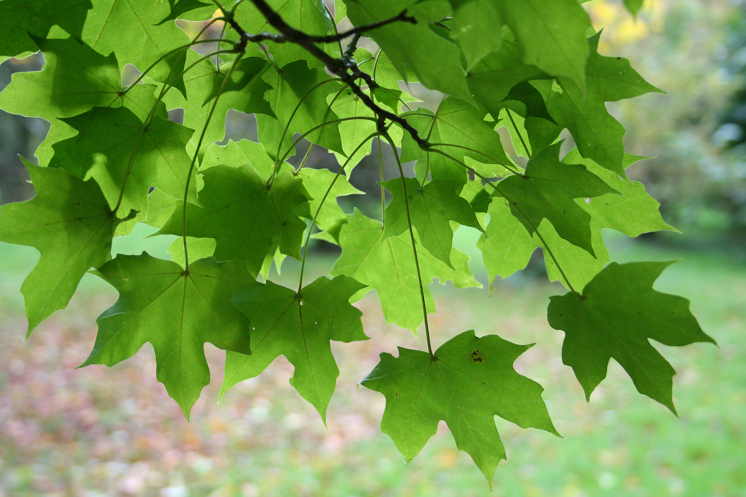 Miyabe’s Maple or Miyabe Maple - Acer miyabei leaves Planting date : 04.12.1975 Precise location : Arboretum Robert Lenoir (S44A - 216) - Rendeux (Belgium). Walon: Fouyes di Plane di Myabe - Acer miyabei Annéye do plantis' : 04.12.1975 Place rècta : Arboretum Robert Lenoir (S44A - 216) - Rindeu (Bèljike).